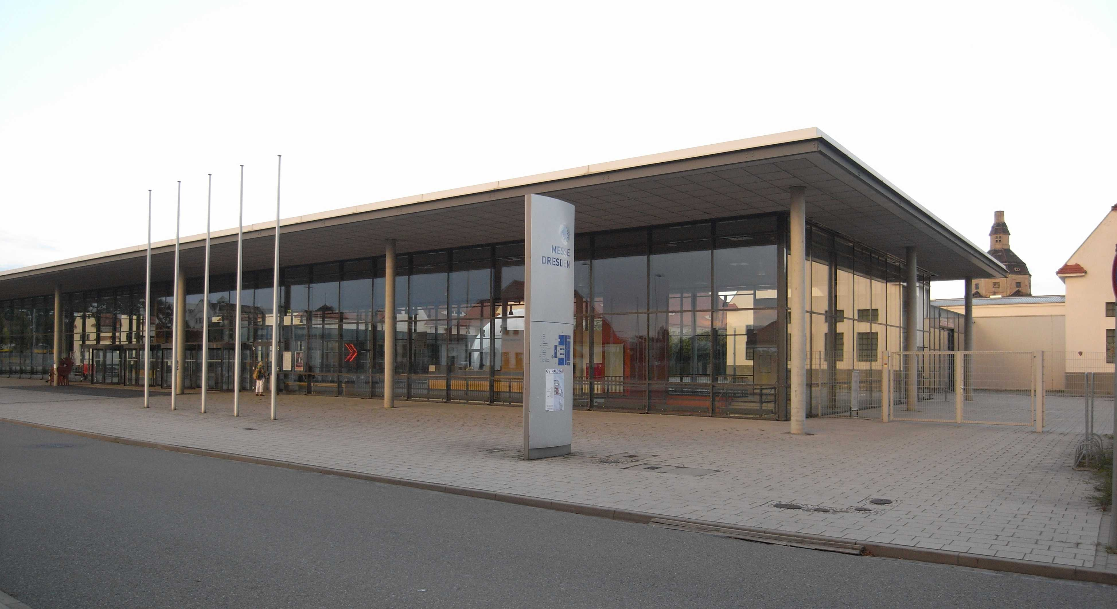 Expo Dresden, building of entrance